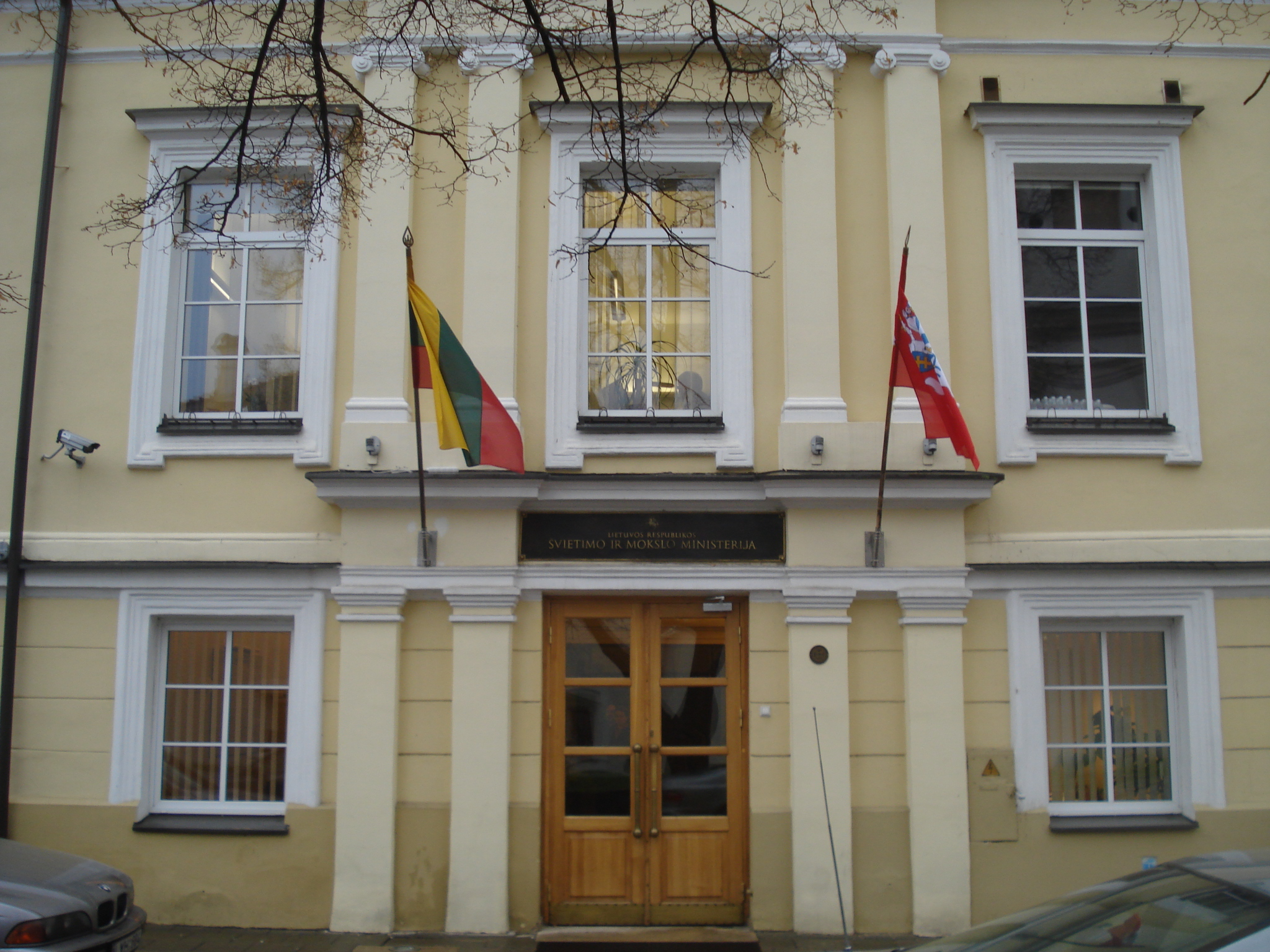 Ministry of Education and Science of the Republic of Lithuania. Volano street 2/7, Vilnius.